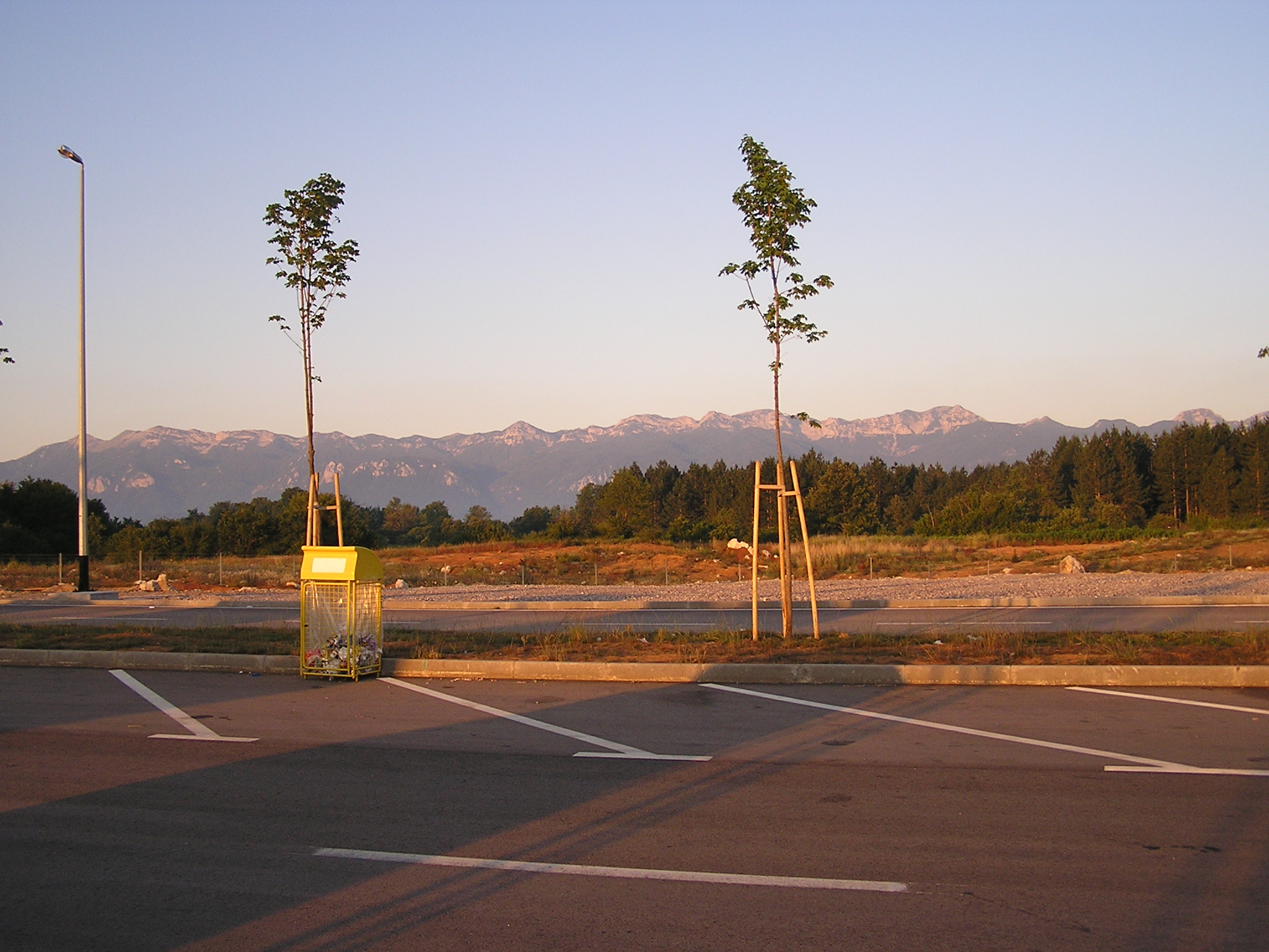 Rest-station Zir on the highway A1, Croatia